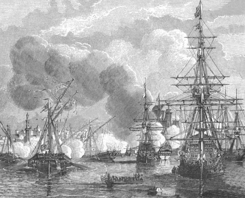 The harbour of Genova bombarded by the royal French fleet of admiral Abraham Duquesne, 17-18 May, 1684., during the War of the Reunions, artwork by Paul Lehugeur, 19th cent.